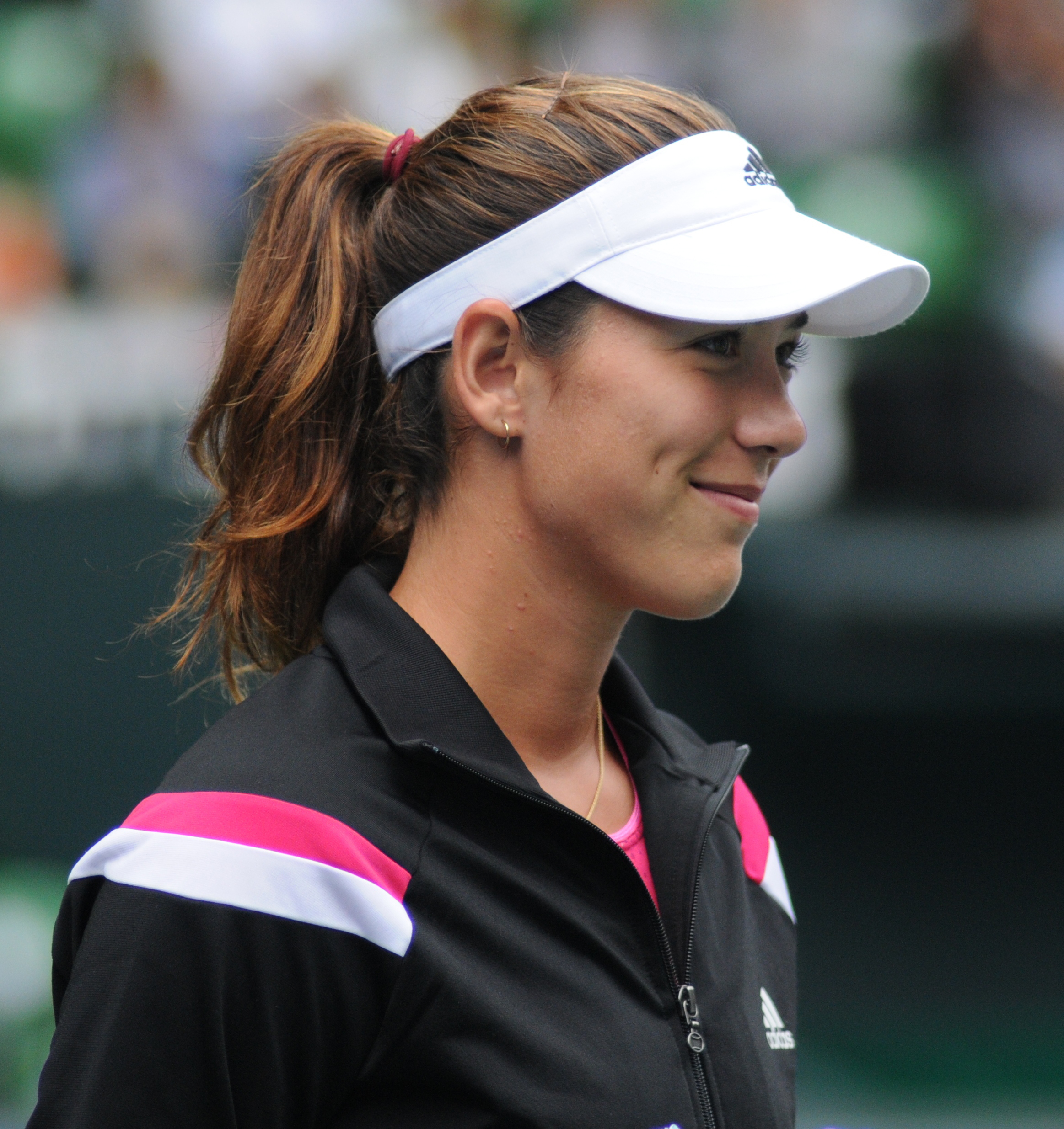 Garbiñe Muguruza at the 2014 Toray Pan Pacific Open